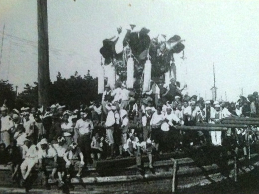 Niihama Taiko Festival at 1935